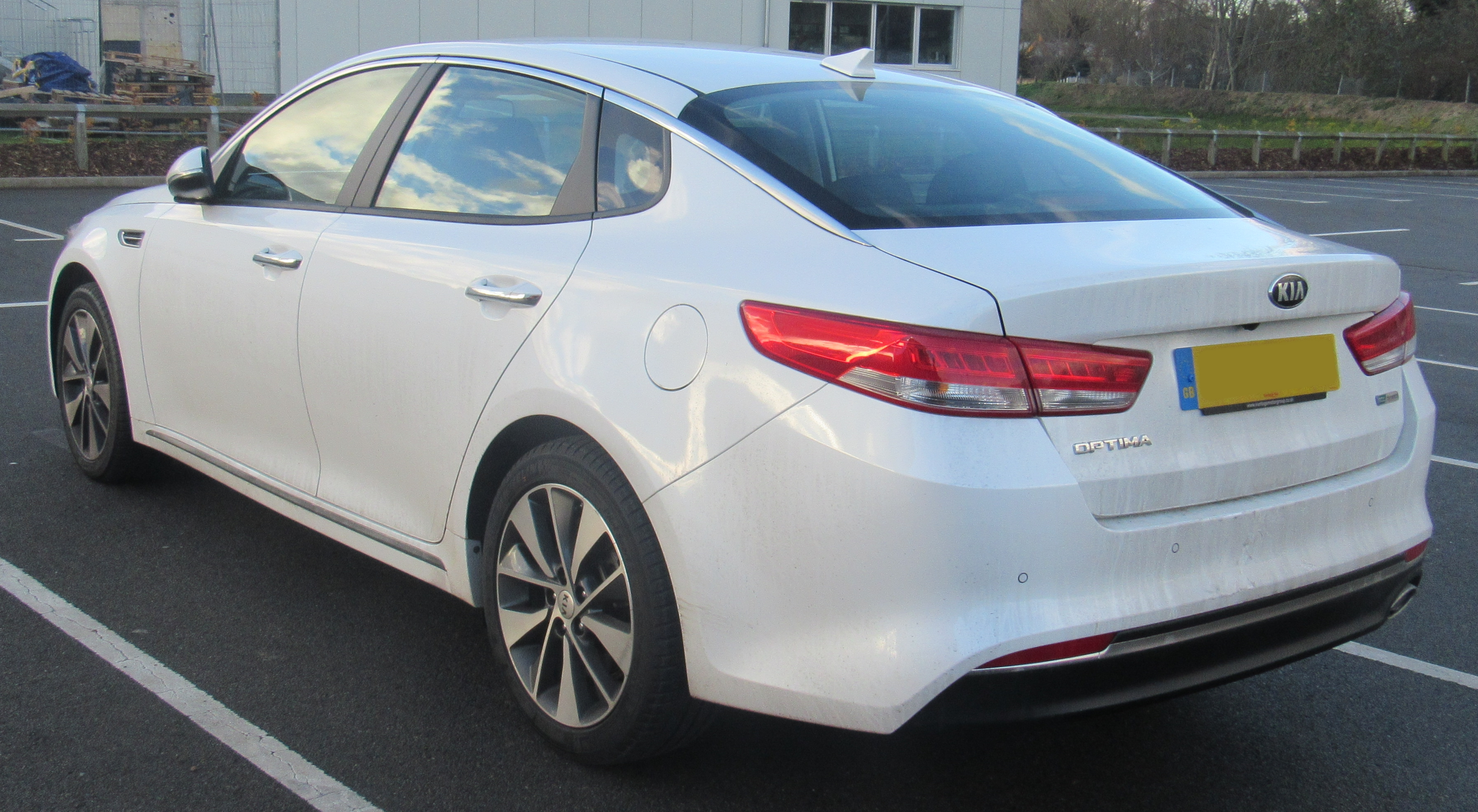 2015 Kia Optima 3 ISG CRDi 1.7 Rear Taken in Leamington Spa